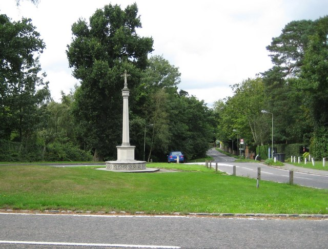 Totteridge: The War Memorial The slender and elegant War Memorial is on a green triangle of land at the main road junction in Totteridge, where Barnet Lane joins with the A5109 road, here known as Totteridge Village.